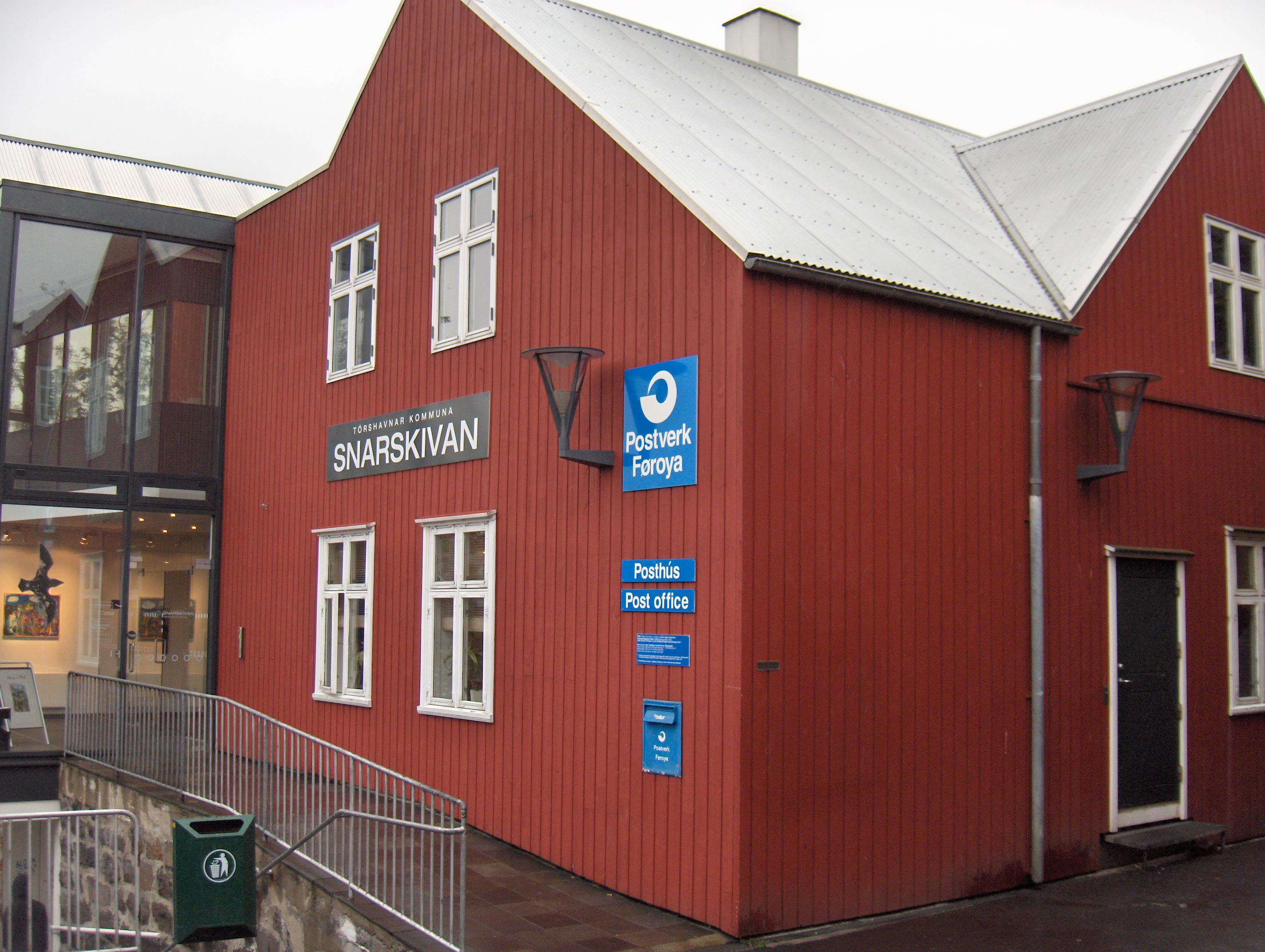 Central Post Office, Torshavn, Faroe Islands